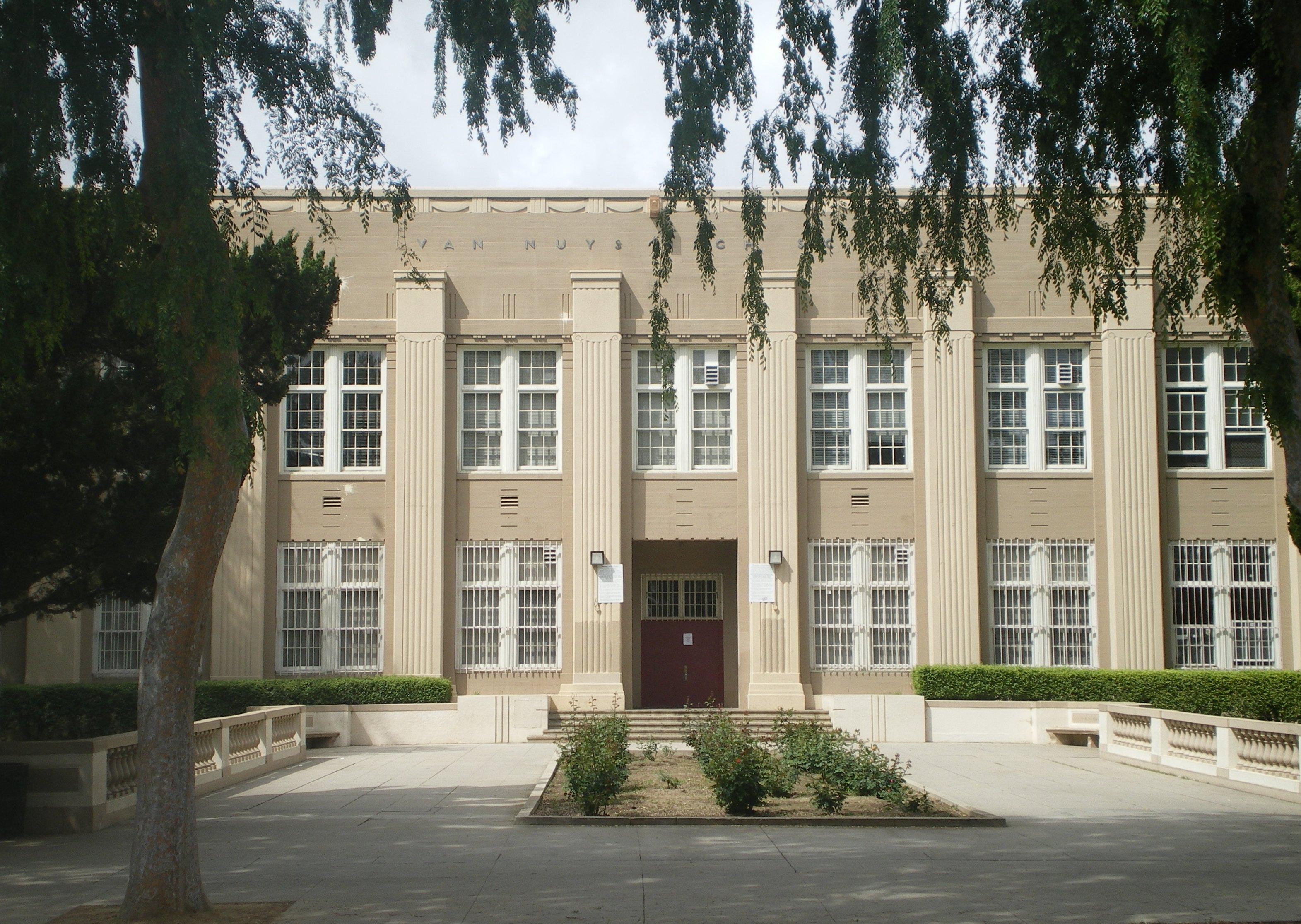 Van Nuys High School — in the San Fernando Valley.